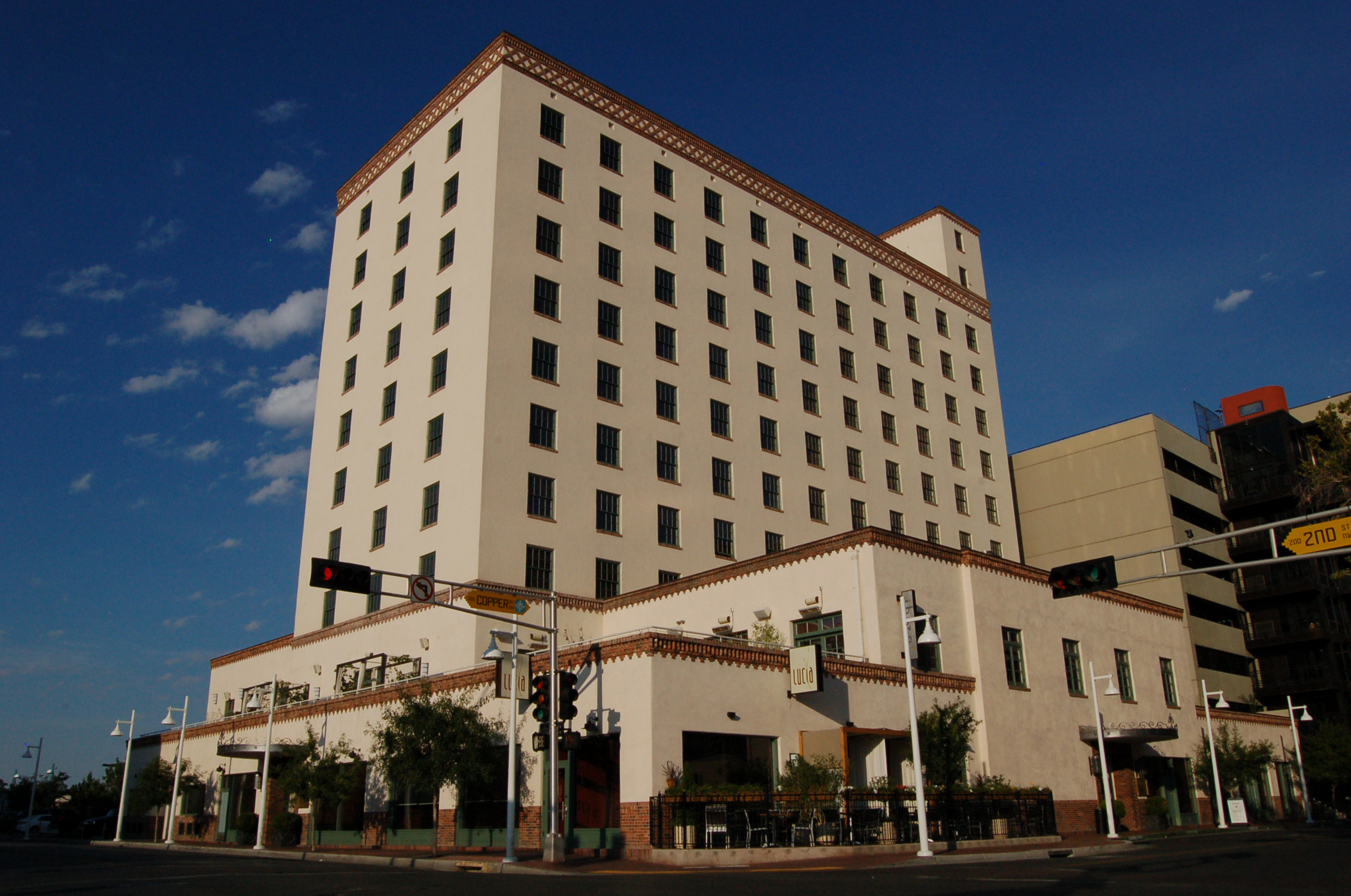 The Old Hilton Hotel in Albuquerque, New Mexico, built in 1939. Now the Hotel Andaluz.